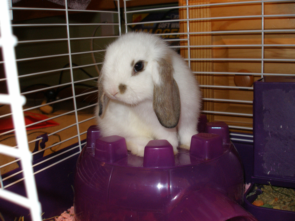 Aww, she looks so bashful. She's the sweetest, most calm rabbit you will ever meet!